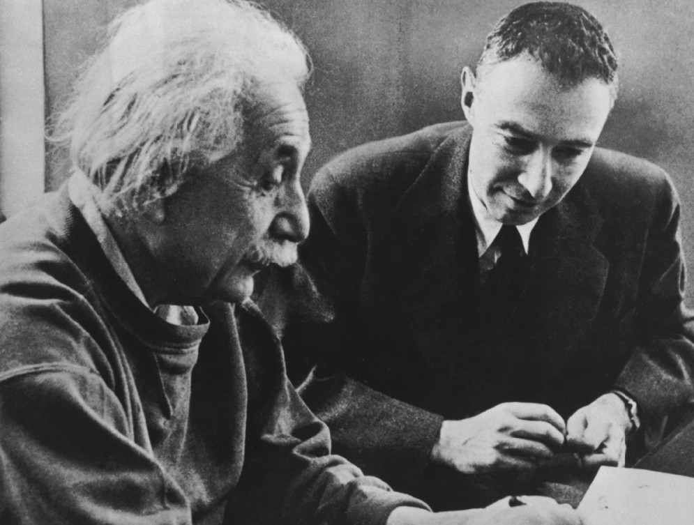 Albert Einstein and Robert Oppenheimer in a posed photograph at the Institute for Advanced Study.